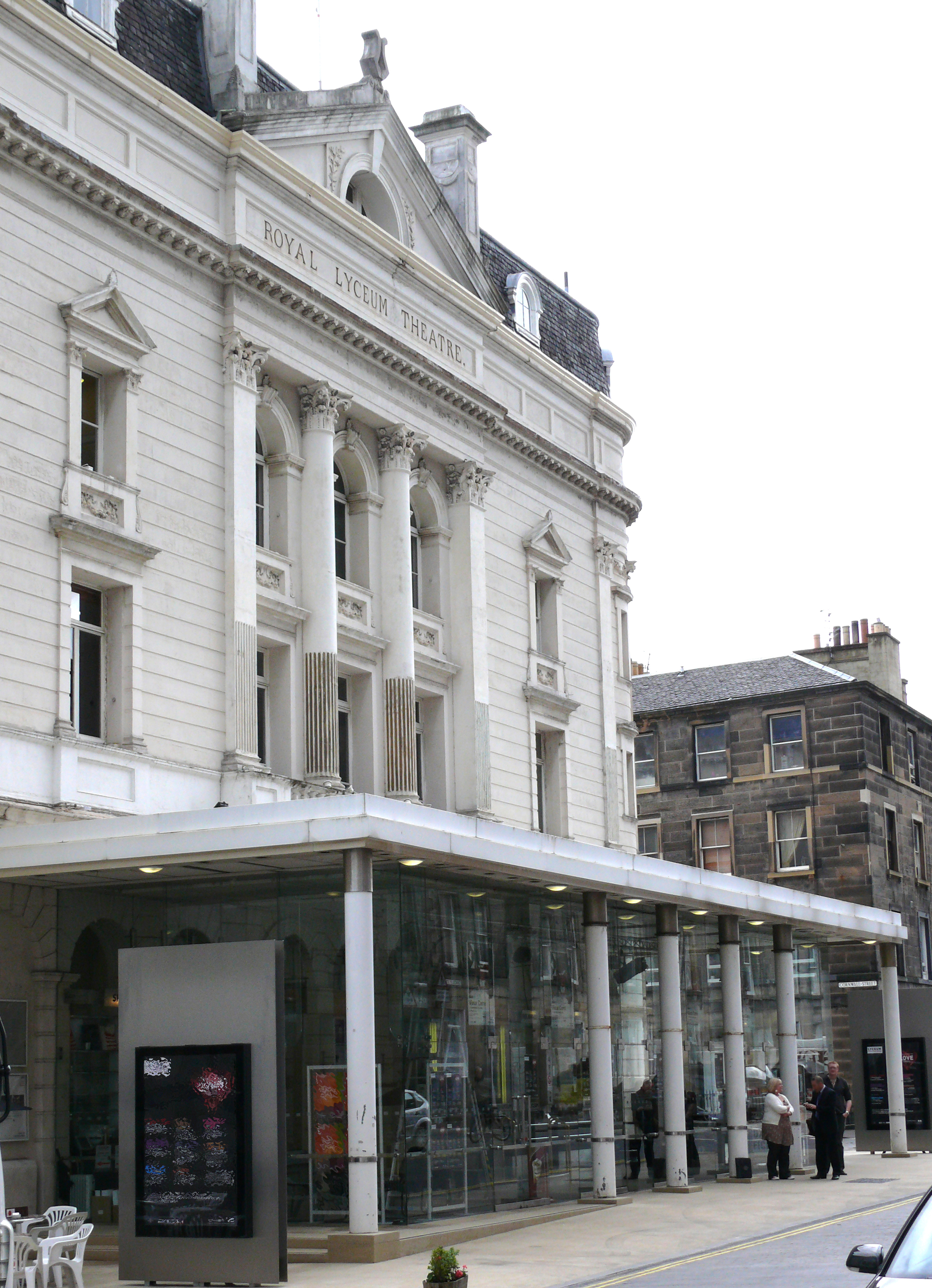 The Royal Lyceum Theatre in Edinburgh. The Royal Lyceum Theatre (1883) is a 658 seat theatre named after the Theatre Royal Lyceum and English Opera House.